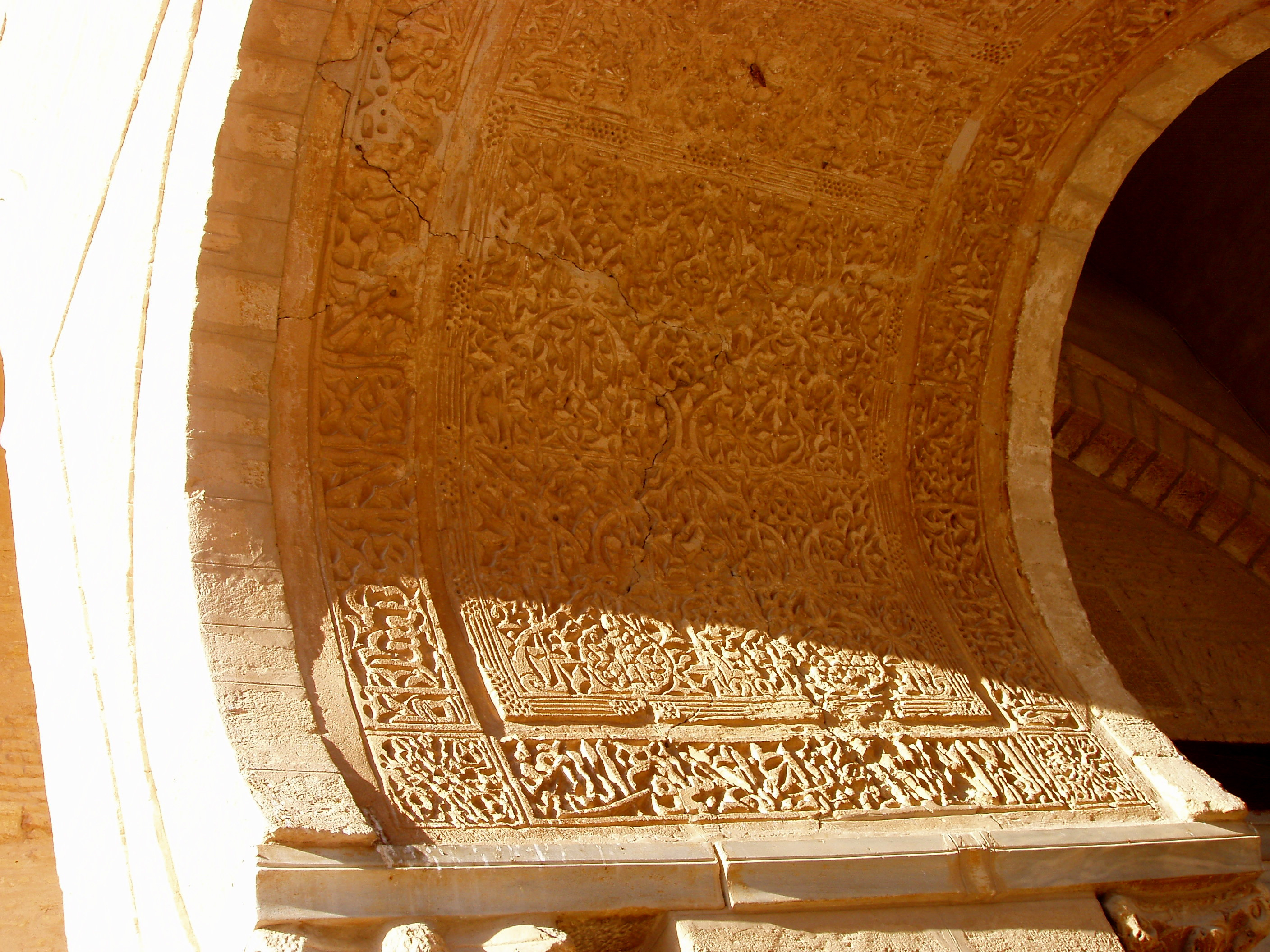 Bab Rihana gate detail of stone relief — at the Great Mosque of Kairouan, Tunisia.